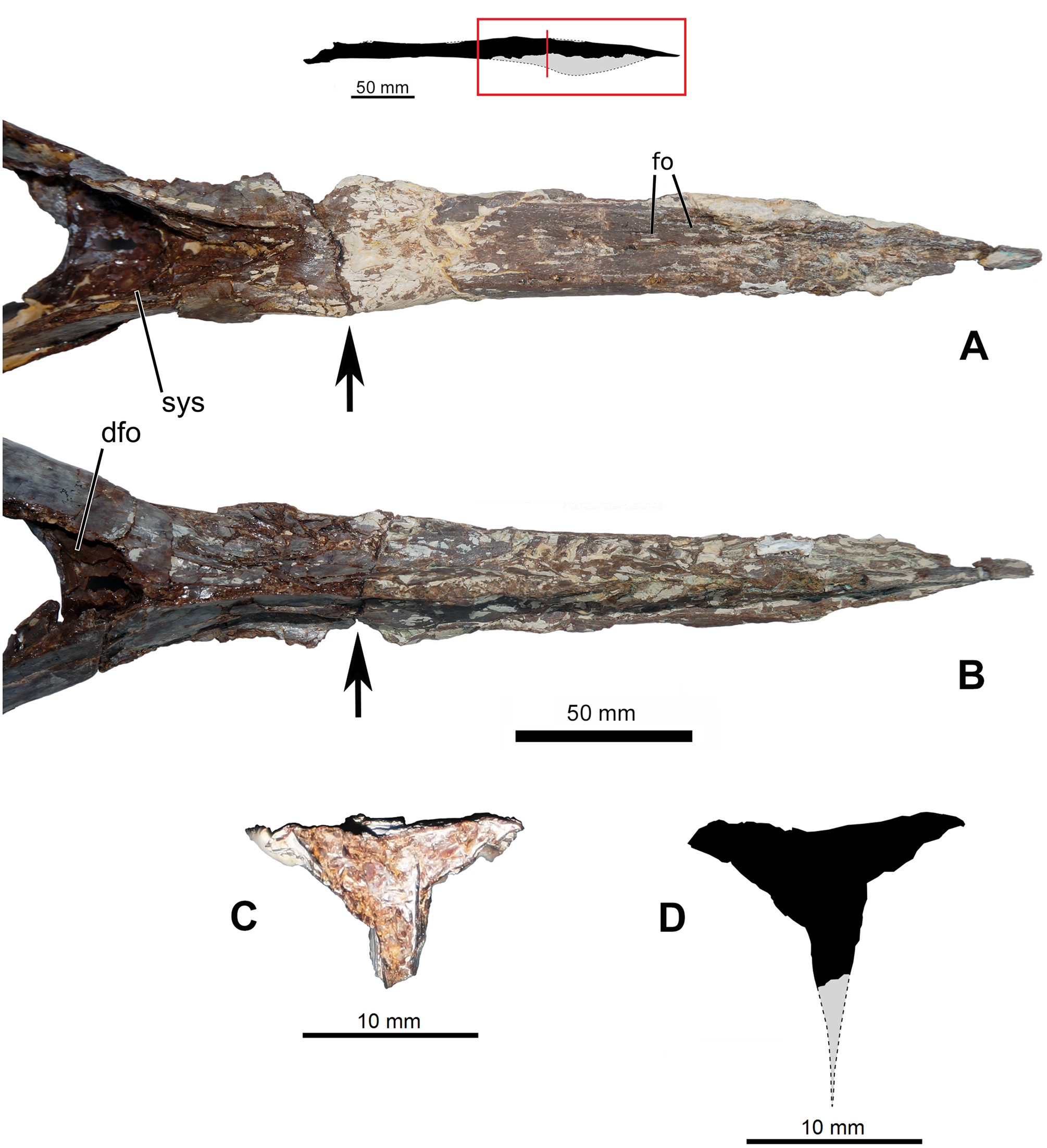 Mandibular symphysis of Aymberedactylus cearensis gen. et sp. nov. (MN 7596-V). (A) Reconstruction of the mandible of Aymberedactylus cearensis, with a red box indicating the zoomed areas and a red line indicating the depicted cross-section. (B) Mandibular symphysis in dorsal view. (C) Mandibular symphysis in ventral view. Arrows indicate a fracture that reveals the cross-section. (D) Cross-section. (E) Reconstructed cross section. Abbreviations: dfo = dentary fossa, fo = foramen, sys = symphyseal shelf.